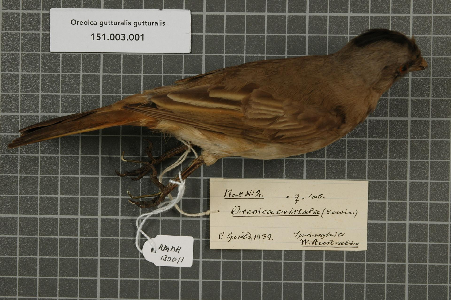 Oreoica gutturalis gutturalis (Vigors & Horsfield, 1827)